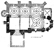 Saint Vivien church of Romagne (Gironde, France)